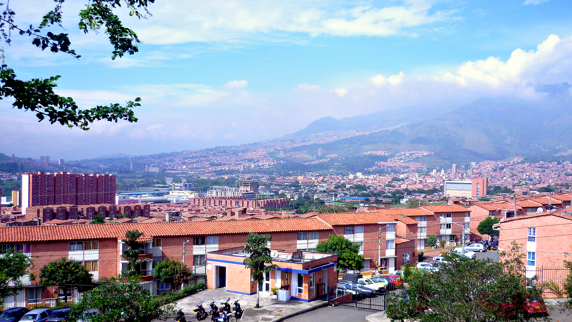 View of Bello from a different angle